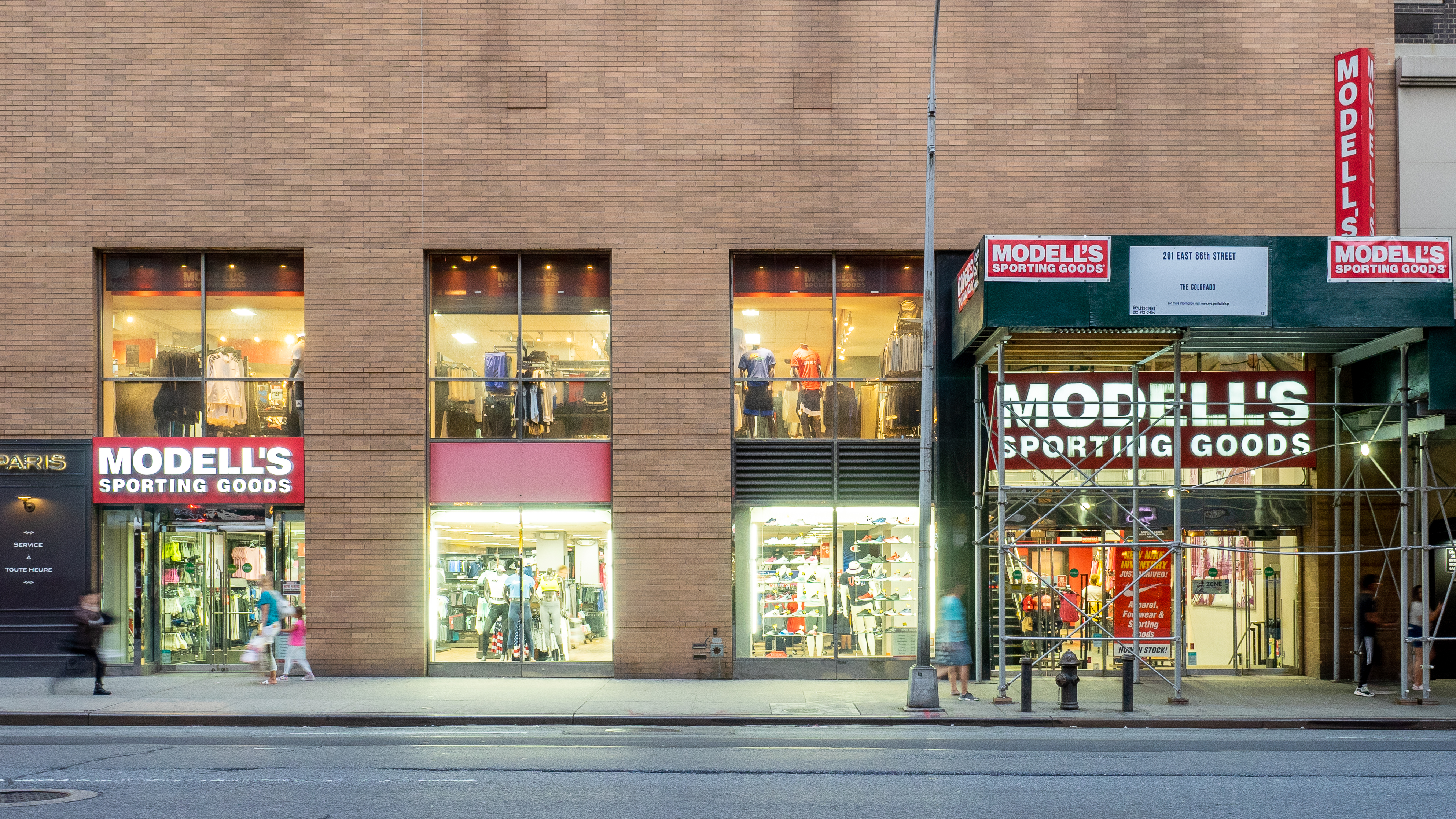 Upper East Side, Manhattan, New York